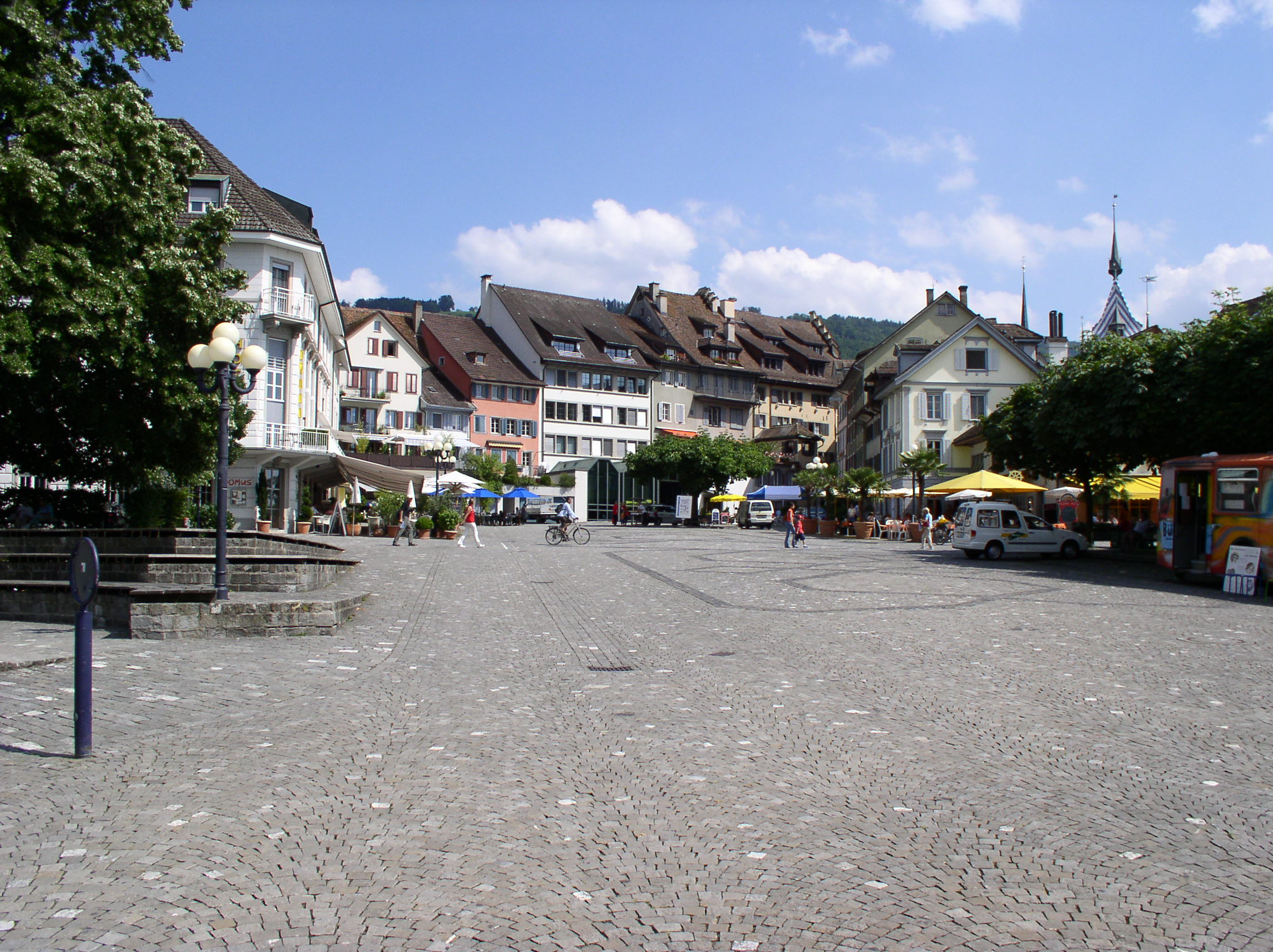 Description: Landsgemeindeplatz in Zug Source: photo taken by me, July 2005 Photographer: Baikonur